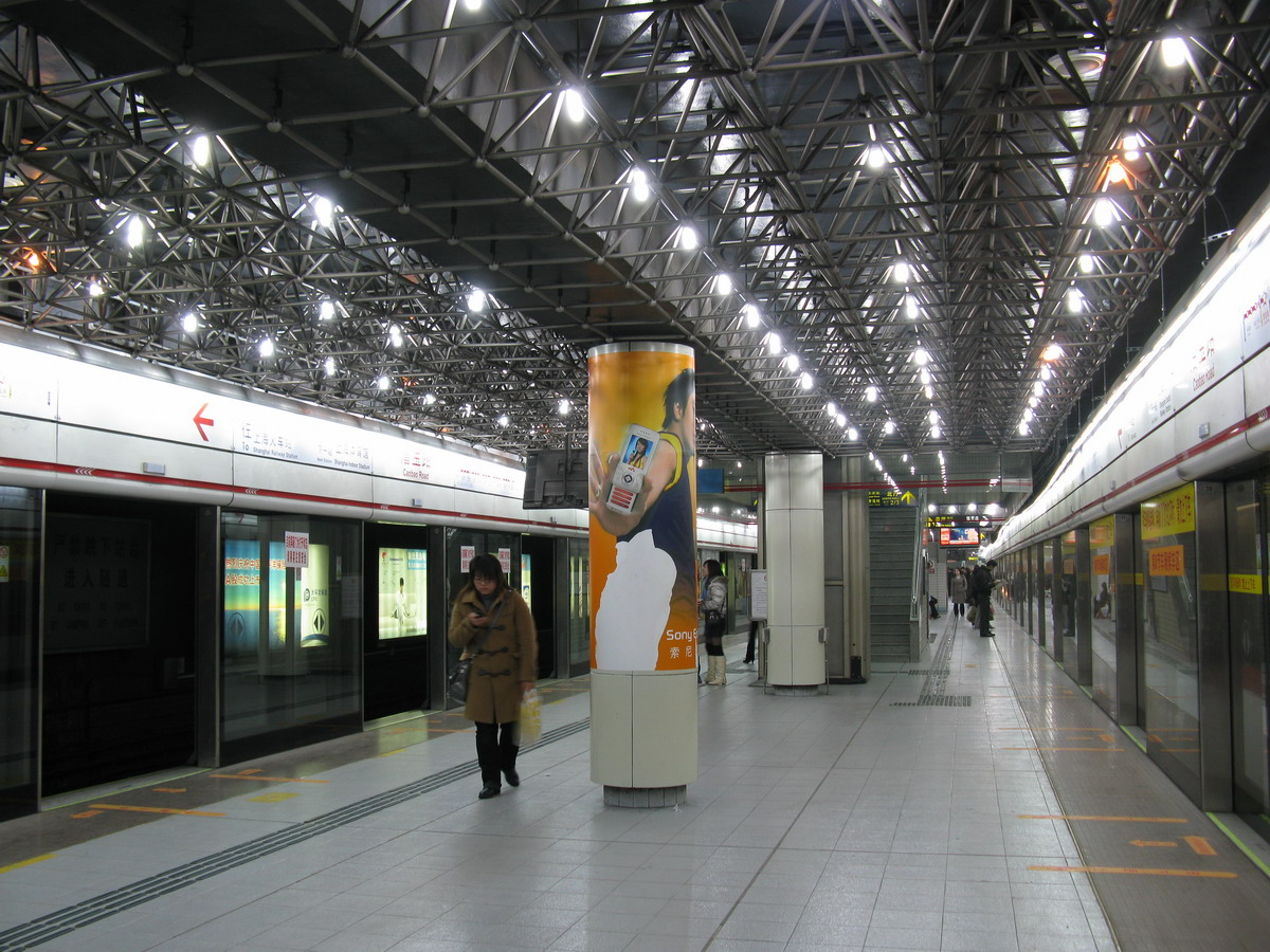 Line 1 Platform of Caobao Road Station